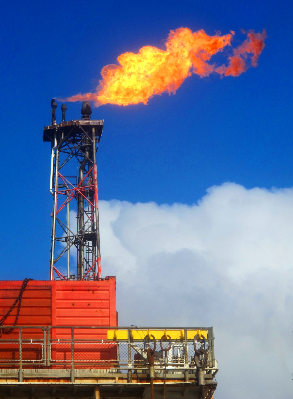 First gas from the Oselvar module burns on the flare of the BP Ula oil platform in the North Sea on April 14th, 2012